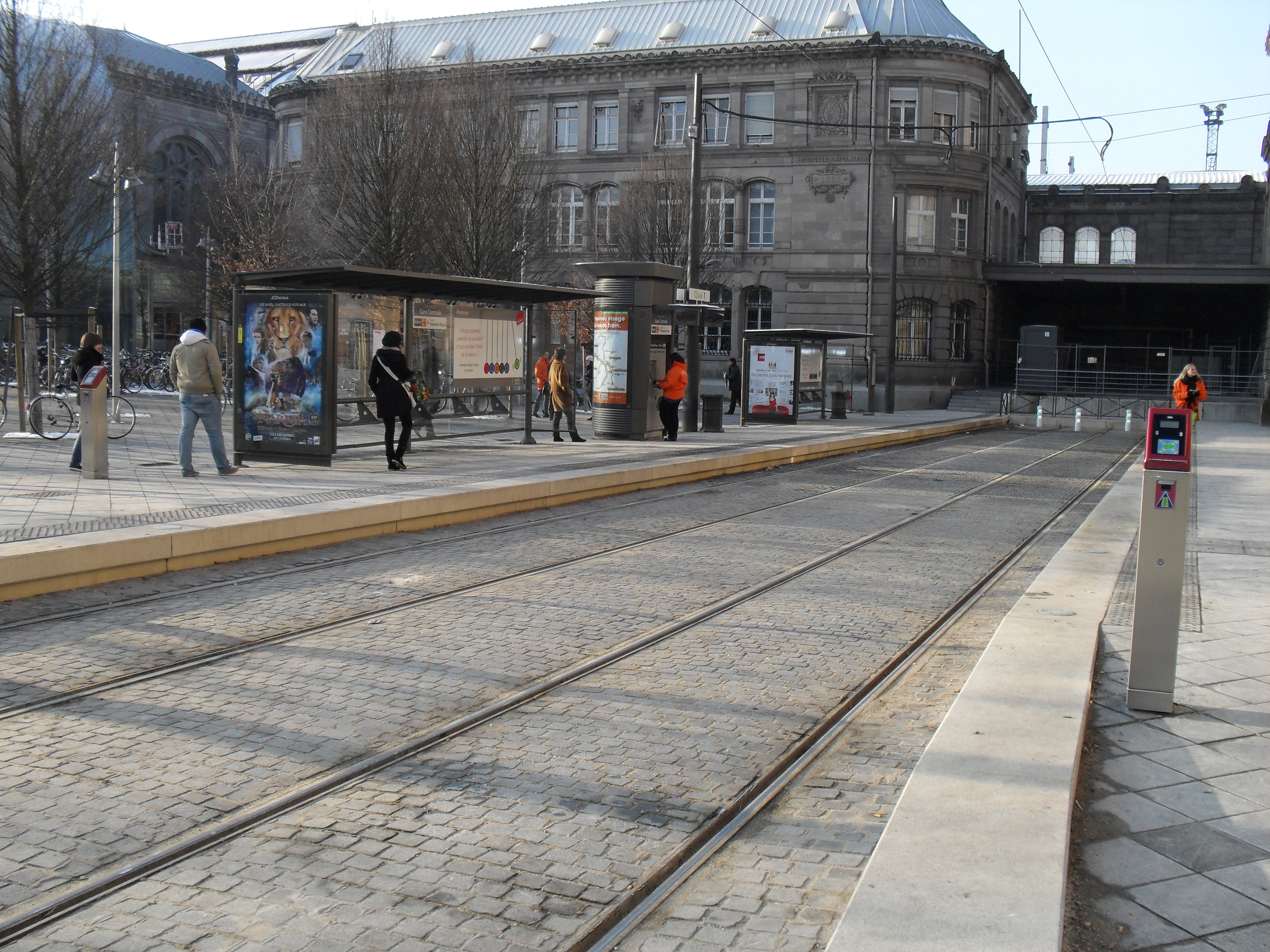 Station Tramway Strasbourg line C "Gare Centrale"